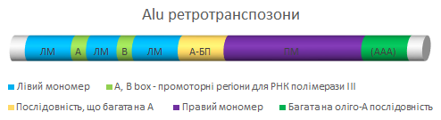 Structure of Alu retrotransposon. Own work based on the illustration from Batzer M a, Deininger PL. Alu repeats and human genomic diversity. Nat. Rev. Genet. 2002 May;3(5):370–9. Available from: PMID: 11988762.